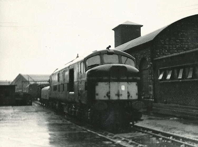 LMS Ivatt/English Electric Class "5MT" Class (initially BR Class "D16/1", later LMS/EE Type 3, then Class 39/1) 1,600 hp diesel electric Co-Co No.10001 in BR Green livery with small yellow warning panel. Built in 1948, just after the formation of BR, it was the second British main line diesel loco. It's EE 16SVT engine was one of the most reliable British diesel engines and used in many subsequent designs - the 1,700 hp & 2,000 hp BR(SR)/EE Class 39/2 1-Co-Co-1's of 1950/51 & 54; the 2,000 hp EE Class 40 1Co-Co1's of 1958-62, the 1,700 hp EE Class 37 Co-Co's of 1960-66, and the 2,700 hp EE Class 50 Co-Co's of 1967-68 whilst the BRC&W Class 31 A1A-A1A's were re-engined with the SVT. Its sister, No.10000, was withdrawn in 1963 and 10001 in 1966 though neither were scrapped until 1968. The photo is poor but the only one I have of either of these historic locos. It is seen on shed at Willesden, 04/65. Note brake tender behind which was used in early diesel days on unfitted freights as the diesels did not have the braking capacity of the steam locomotives they replaced. Scanned photograph taken with an Halina 35X Super camera.